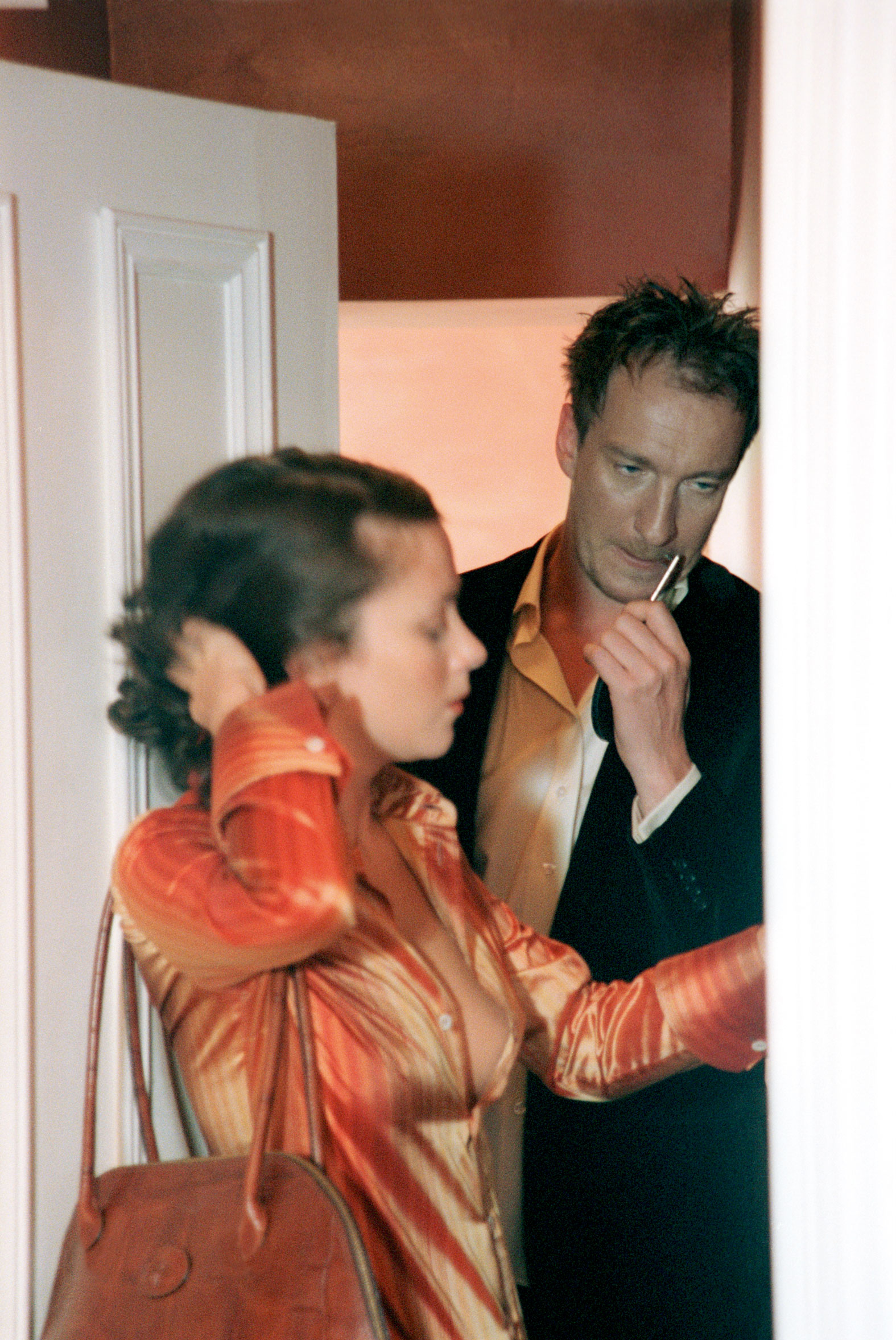 Photograph made by artist and photographer Henry Bond for Mulberry A/W 2001 - the photograph depicts actors David Thewlis and Anna Friel, who were reported to have been paid £50,000 to appear in the campaign.